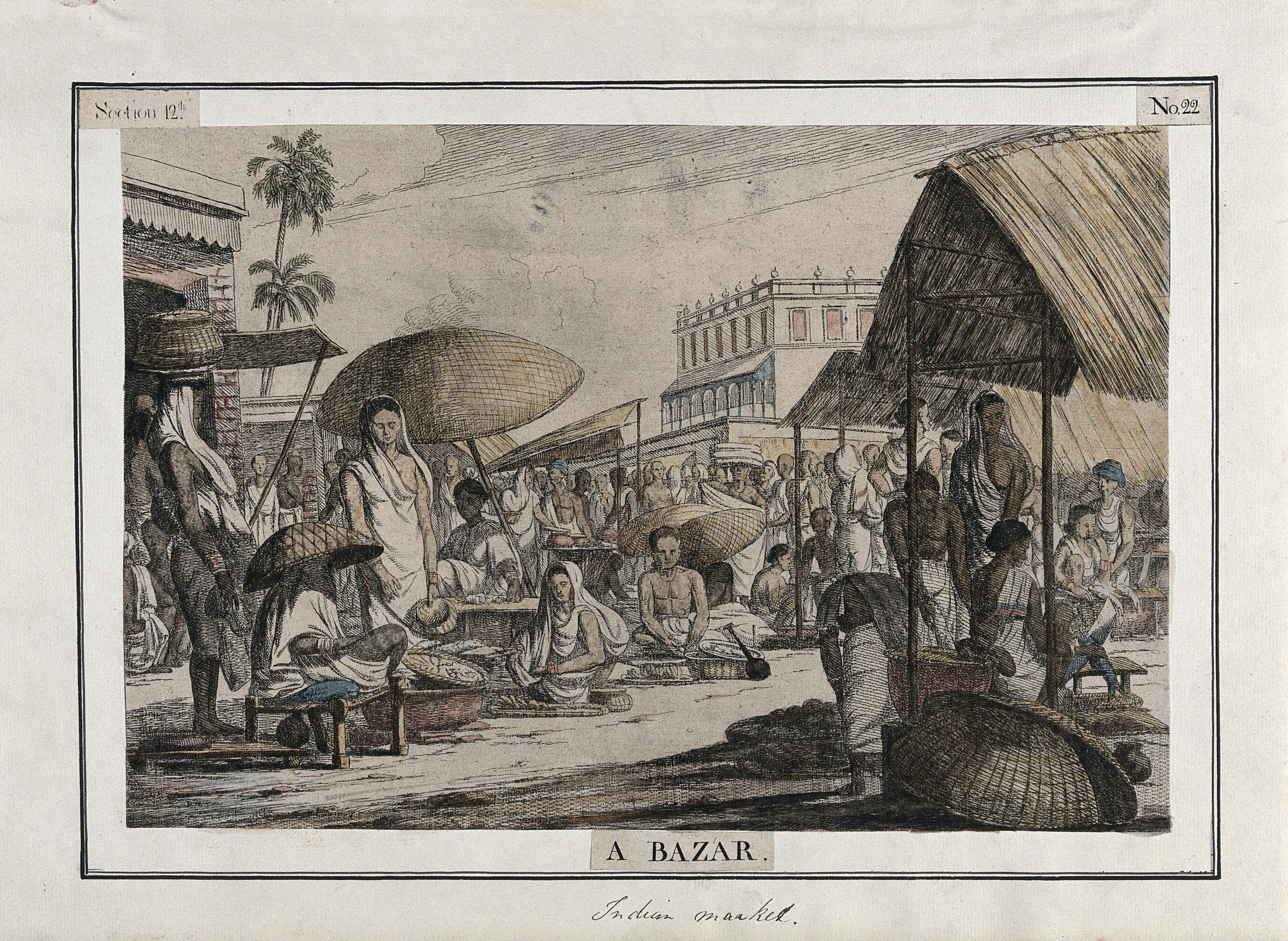 Market scene, Calcutta, West Bengal. Coloured etching by Francois Balthazar Solvyns, 1799. Iconographic Collections Keywords: Francois Balthazar Solvyns